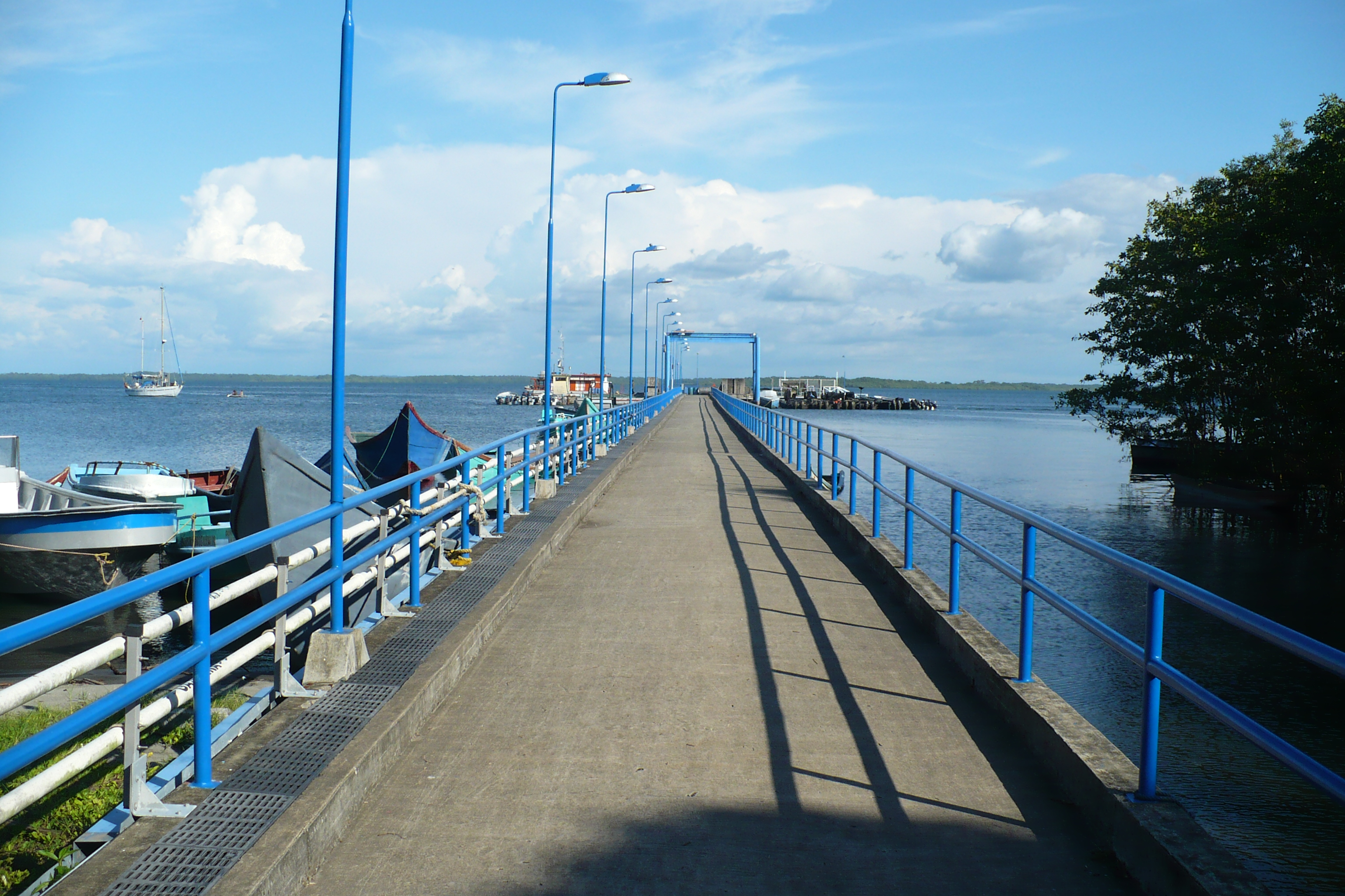 Military area in Tomaco